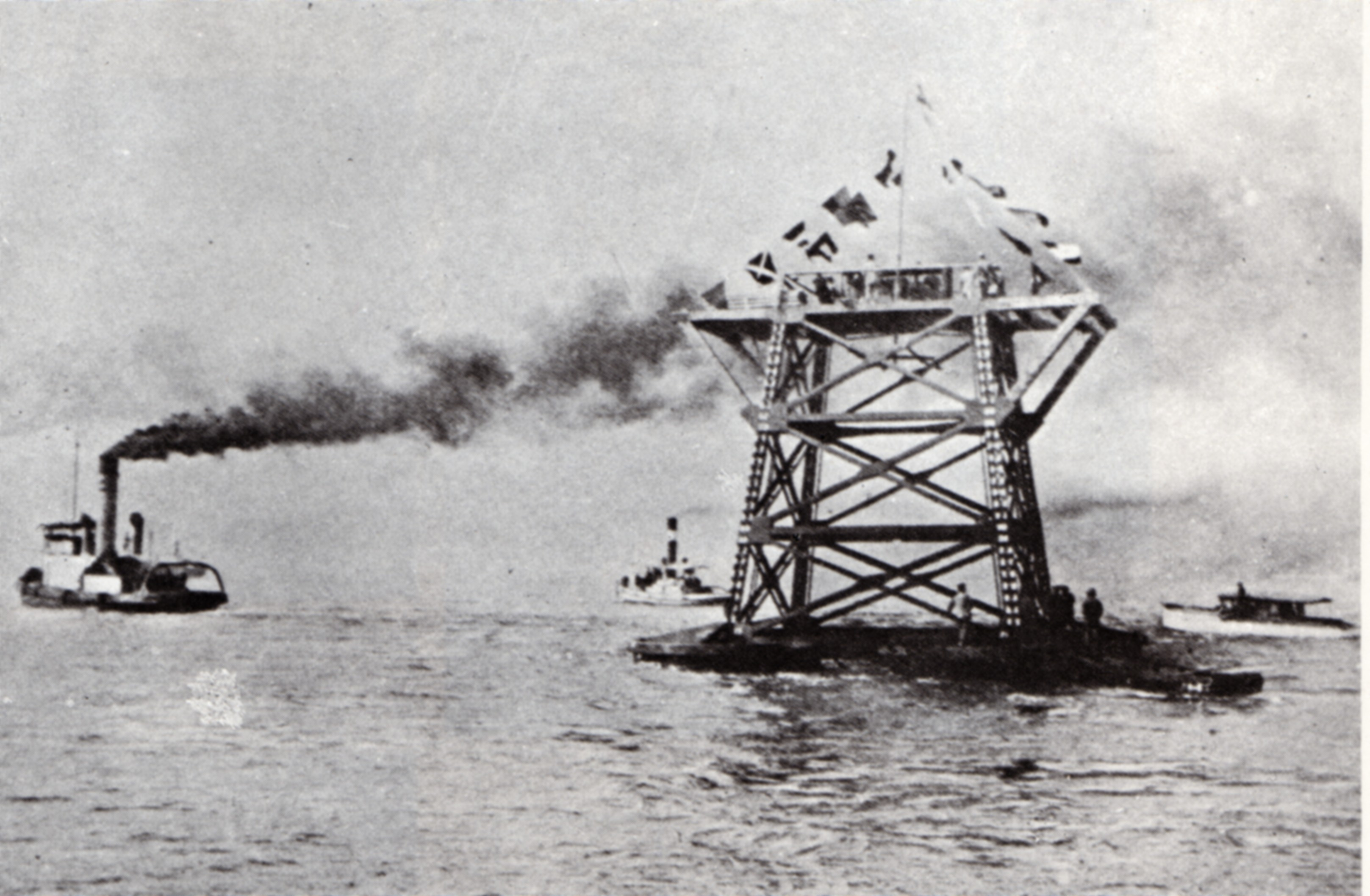 Floating drilling derrick for geological survey under the sea for construction of Kammon railway tunnel